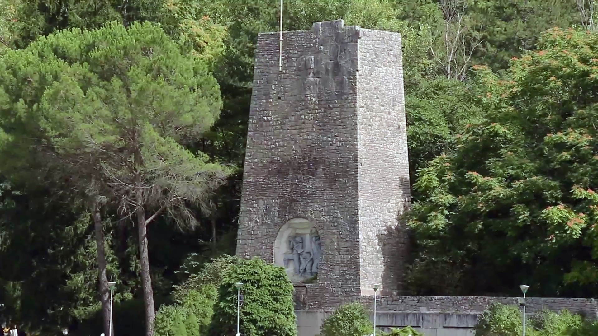 The Peschiera river springs, in the municipalty of Castel Sant'Angelo in the province of Rieti (Lazio, Italy) and the water drawing works, part of the Peschiera aqueduct which supplies the city of Rome